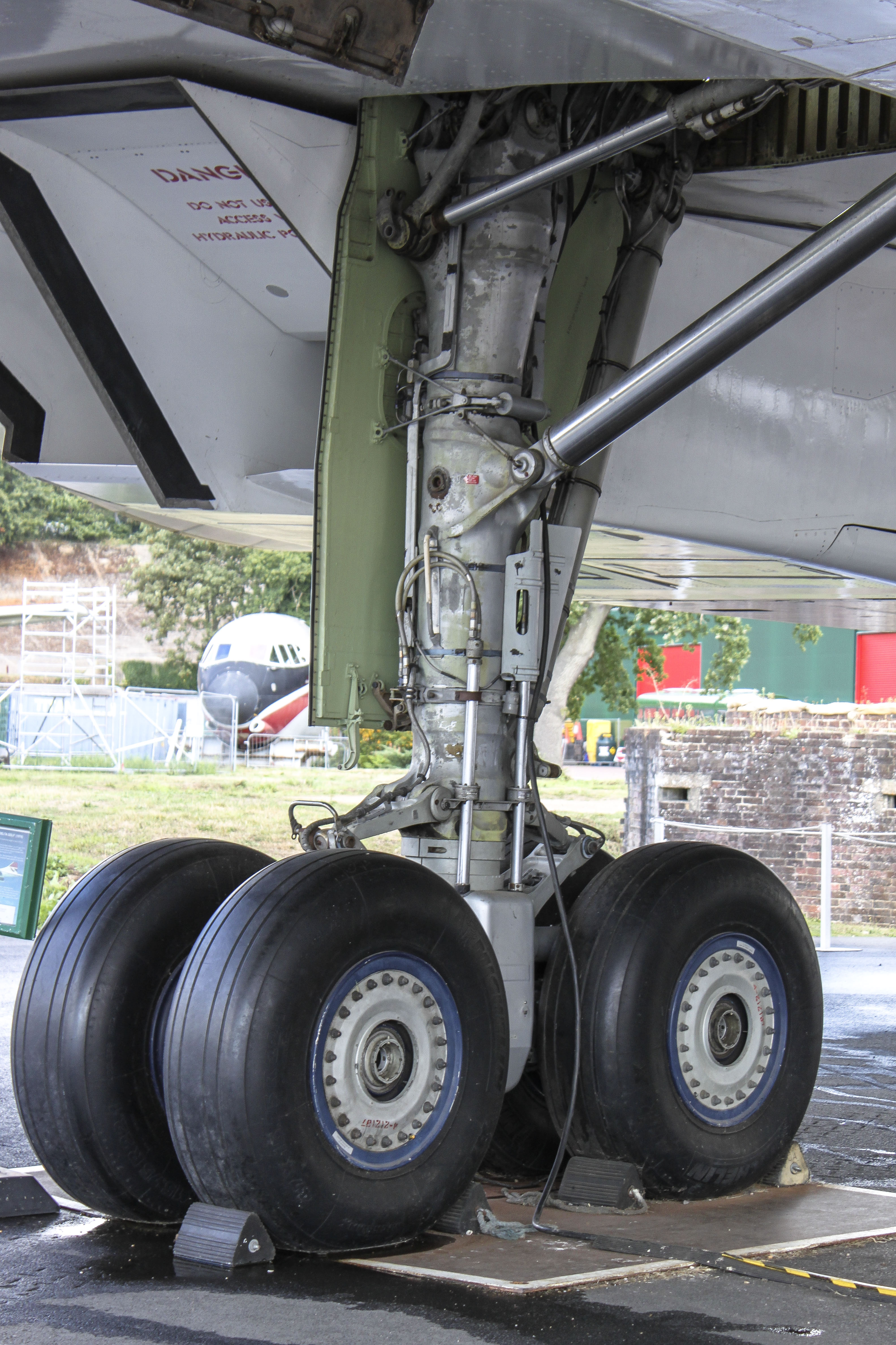 Concorde right main landing gear.